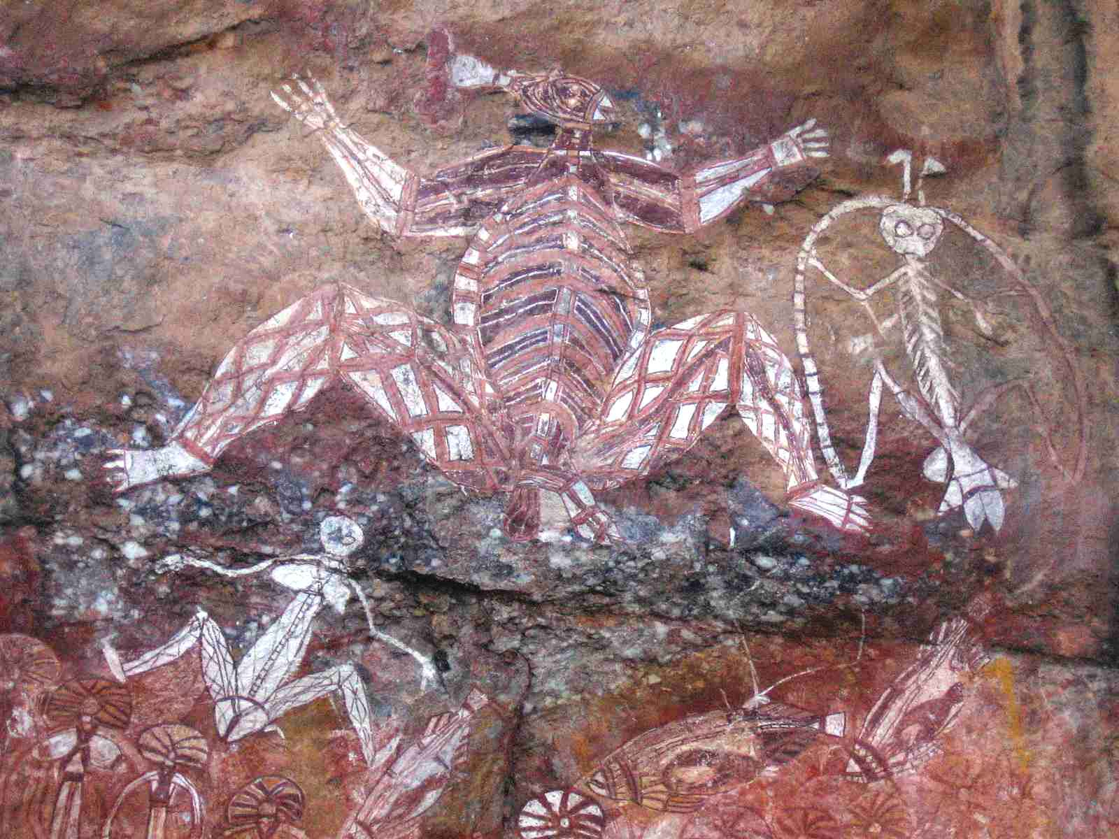 Koala Rock Art Aboriginal Rock Art, Anbangbang Rock Shelter, Kakadu National Park, Australia According to .au, it shows Namondjok, a Creation Ancestor, with his wife Barrginj below, the Lightning Man Namarrgon to the right, and a group of men and women with ceremonial headdresses underneath. These Spirit figures were repainted between 1962 and 1964, the last major rock painting at the Anbangbang Art site in Nourlangie Rock.